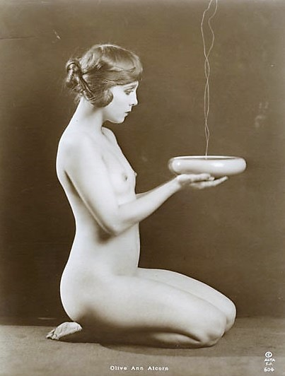 Olive Ann Alcorn